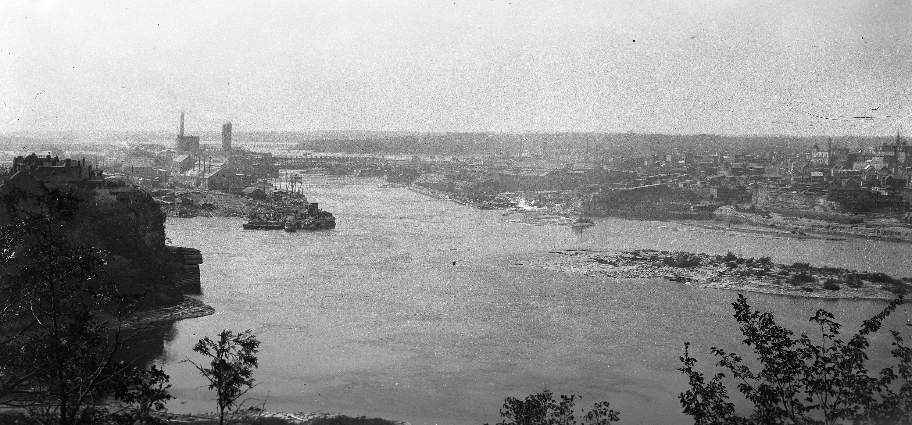 Hull, Quebec on the right; lumber/paper mill in left background.